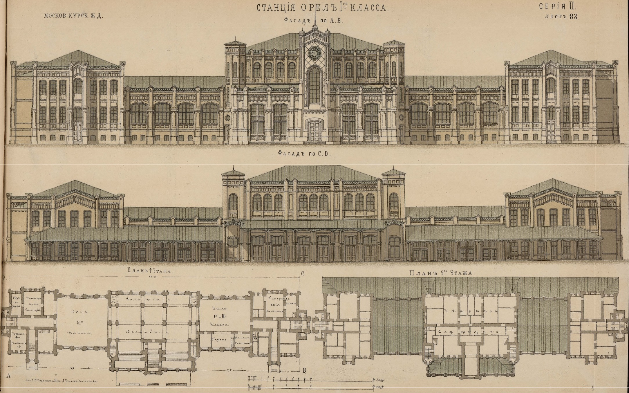 Railway station Oryol. Russian Empire